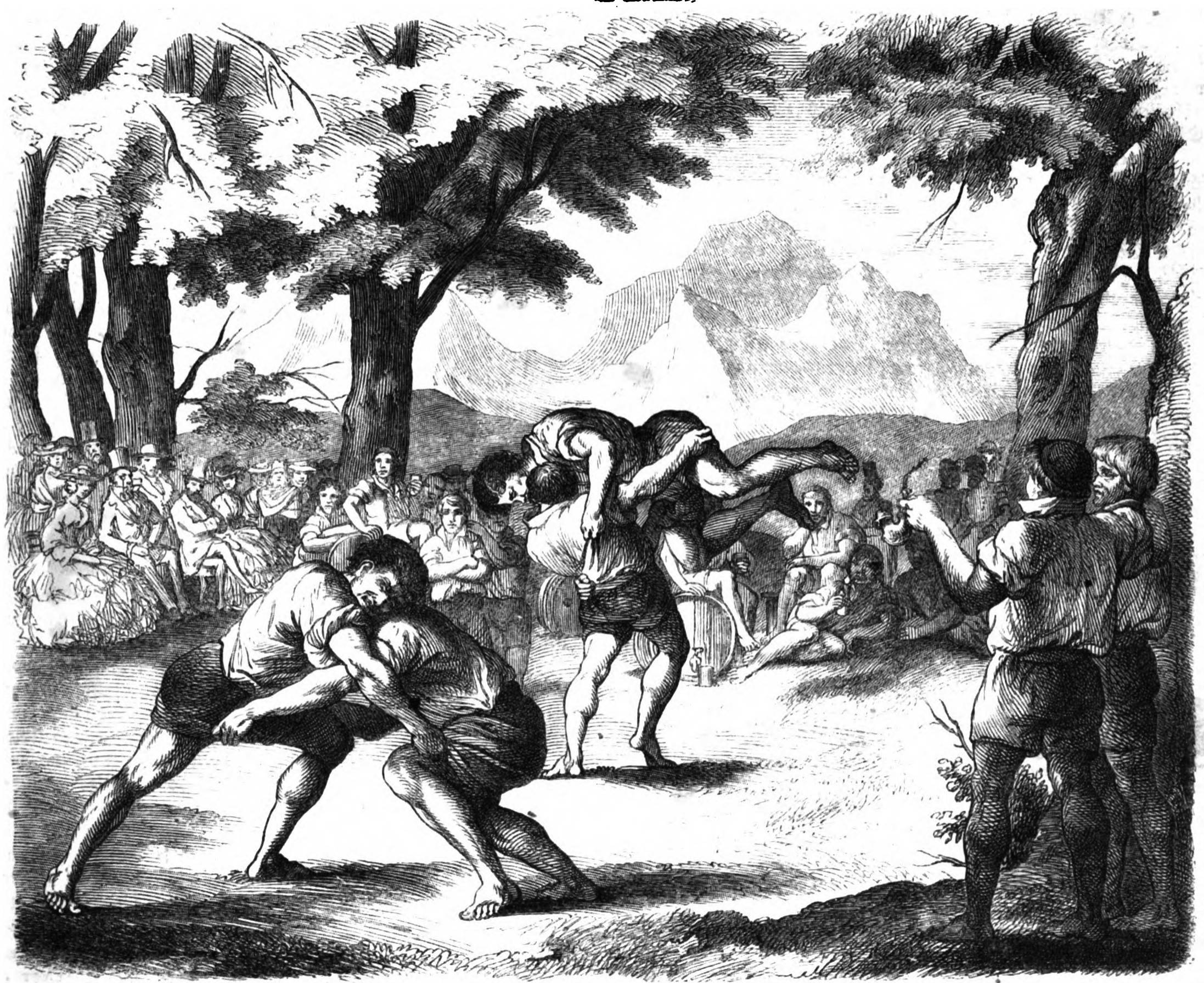 caption: "Schweizer Schwinger."